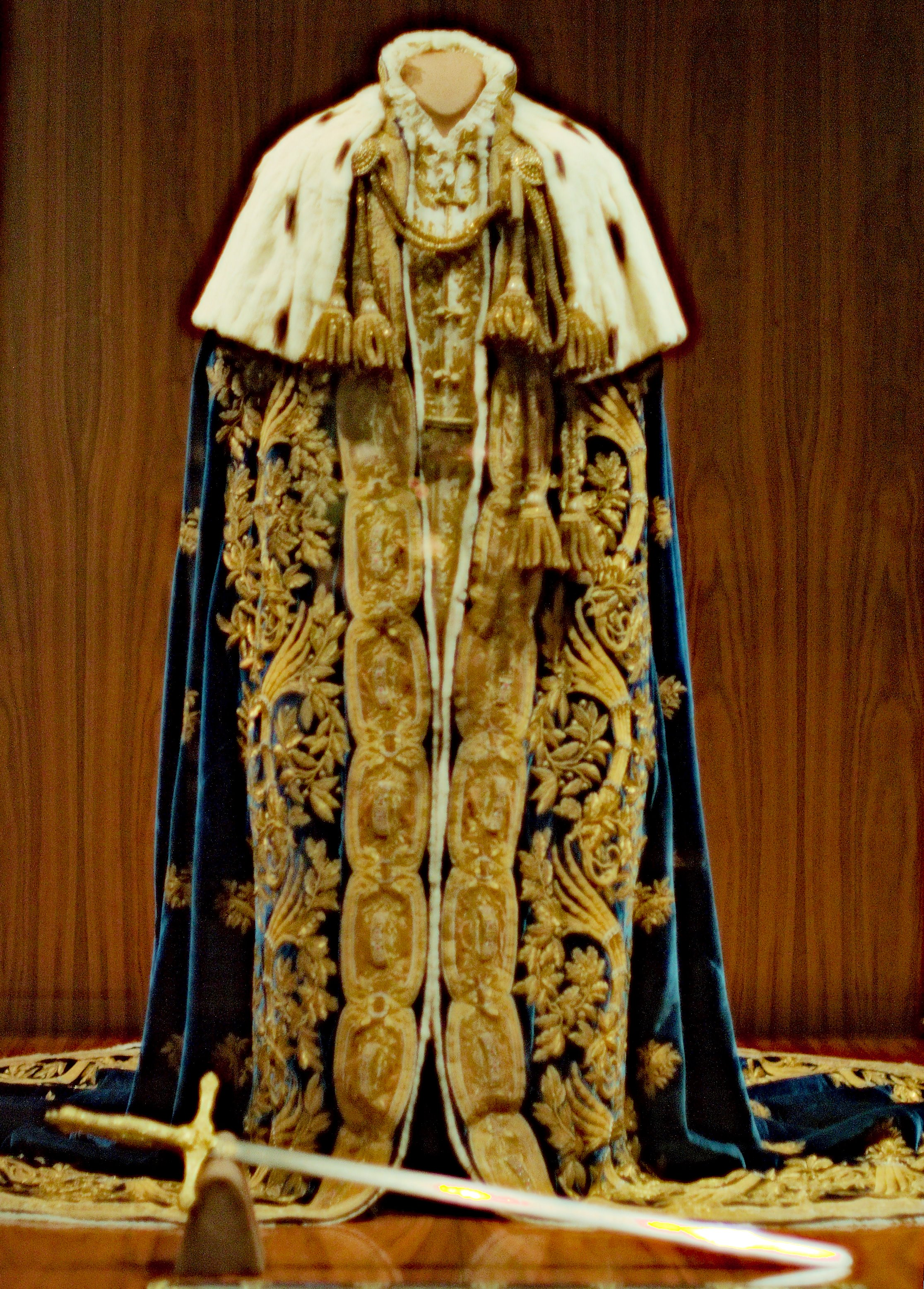 Coronation Robes of the Kingdom of Lombardy-Venetia